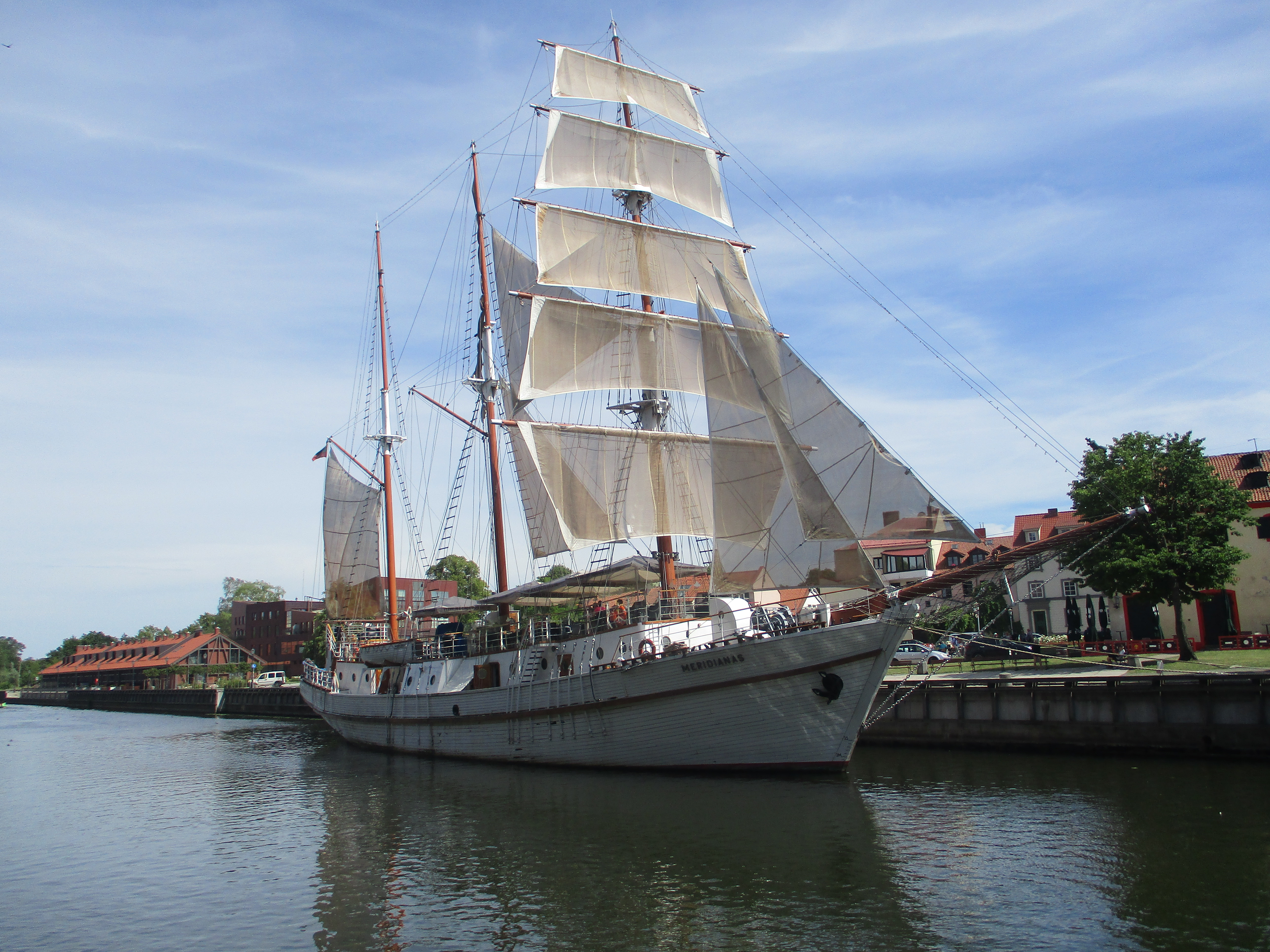 Sailing vessel "Meridianas" (now a restaurant) in the Danės quay, Klaipėda, Lithuania.